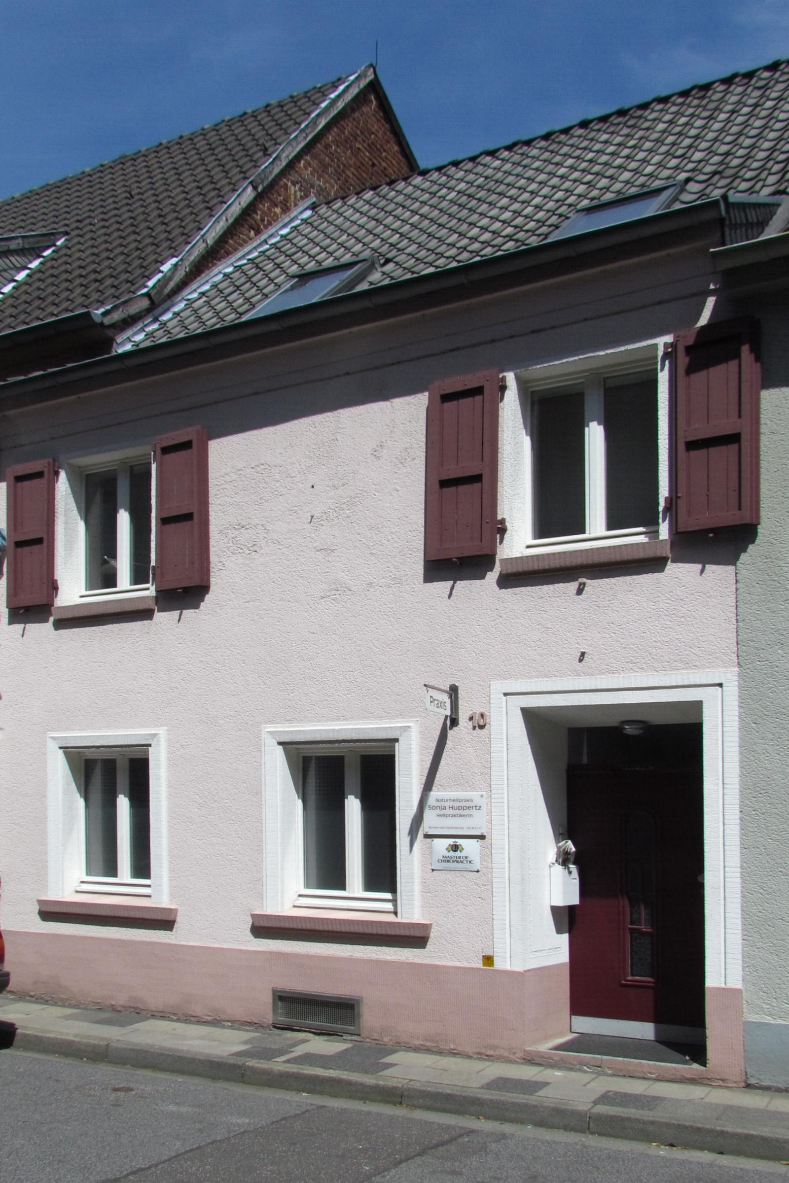 This is a photograph of an architectural monument.It is on the list of cultural monuments of Korschenbroich